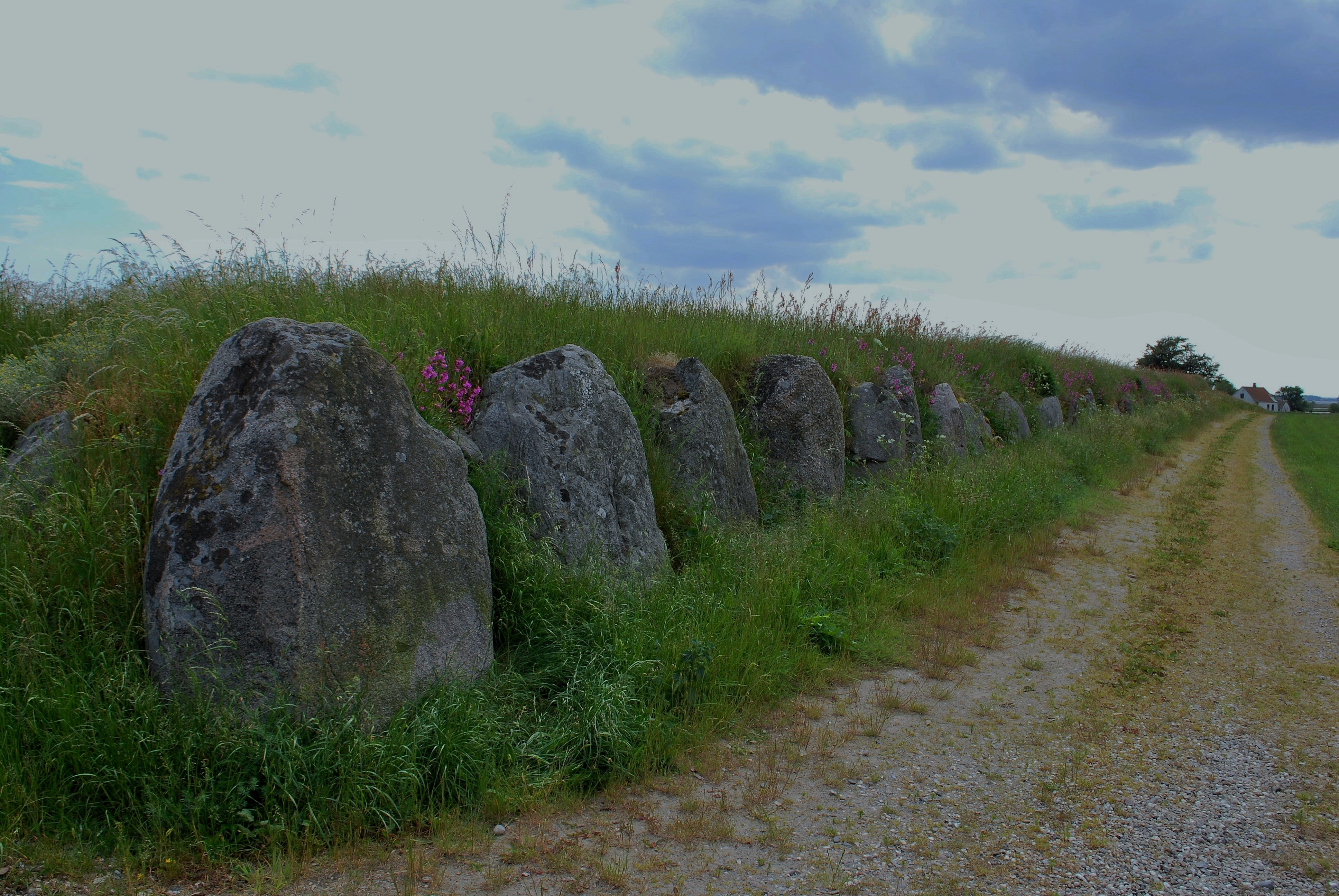 Grønsalen or Grønjægers Høj is located near Fanefjord Church on the Danish island of Møn. Some 100 metres long and 10 metres wide, it is Denmark's largest long barrow and is widely recognised as one of Europe's outstanding ancient monuments.